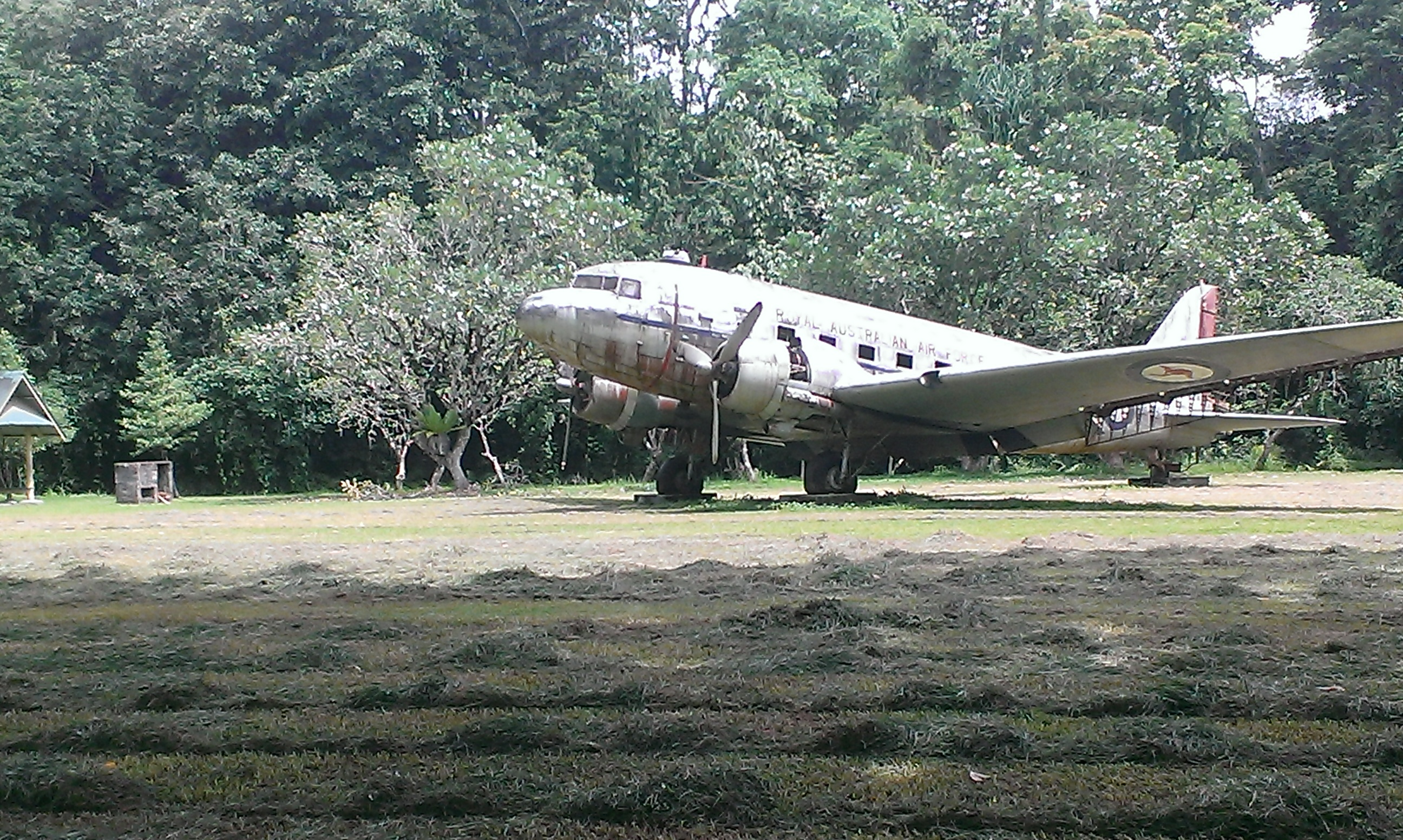 Photo of RAAF (DC3) at Lae Botanical Gardens HTC Photo